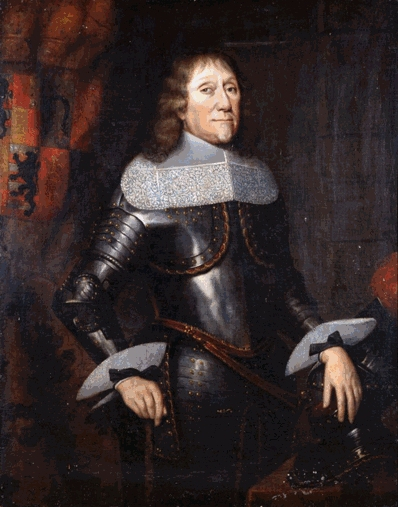 Contemporary portrait of Adriaan van Hoensbroeck